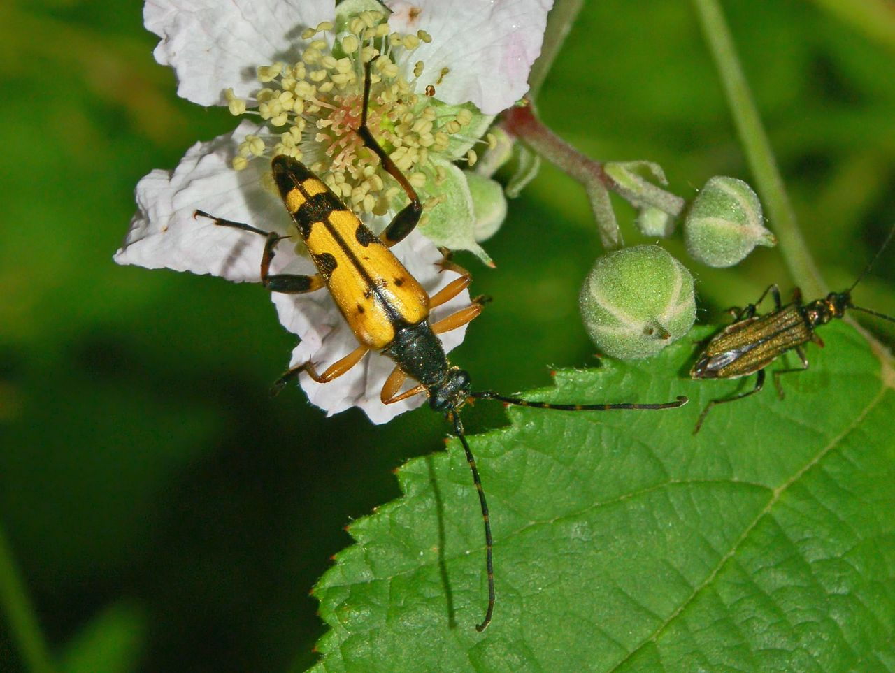 Male spotted longhorn beetle, Rutpela maculata, with a female thick-kneed flower beetle, Oedemera nobilis on right